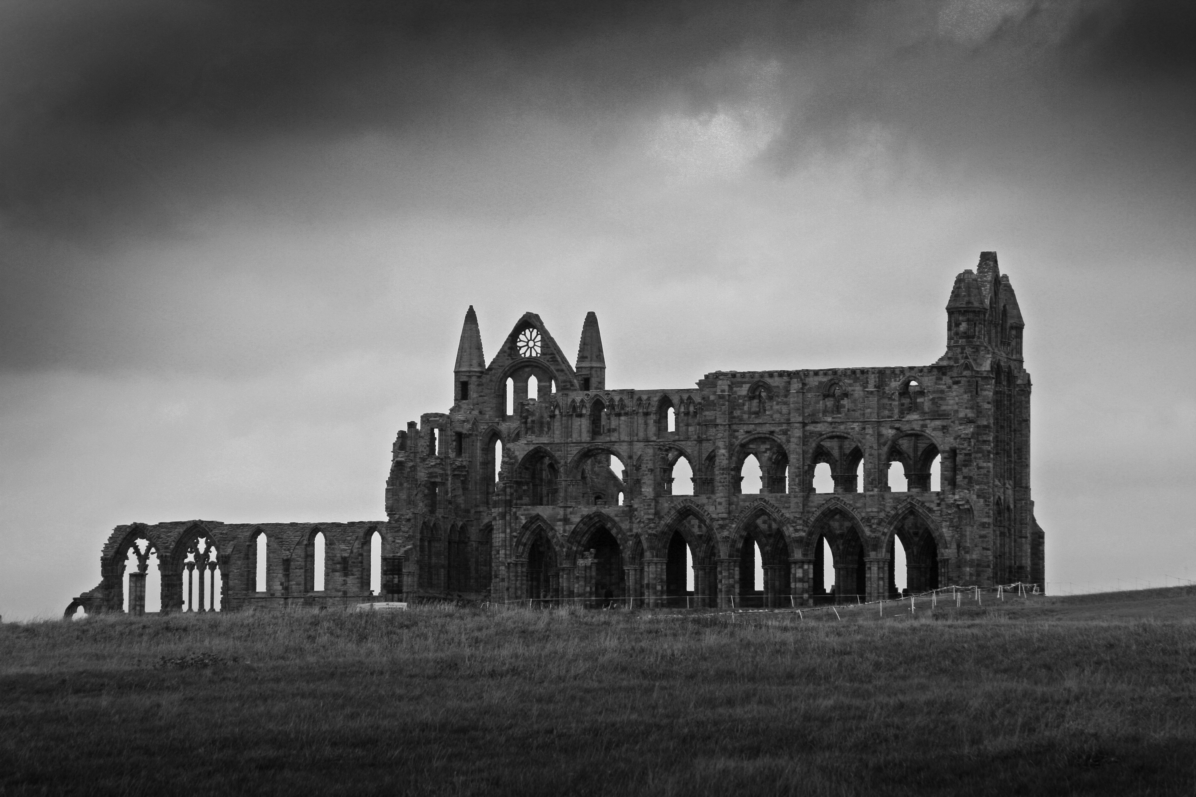 Whitby Abbey. We were there when it was the goth weekend.